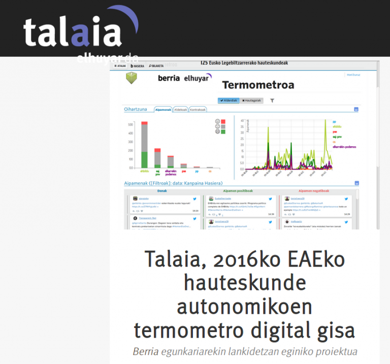 Talaia portal of sentiment analysis. Digital thermometer of the 2016 regional elections.